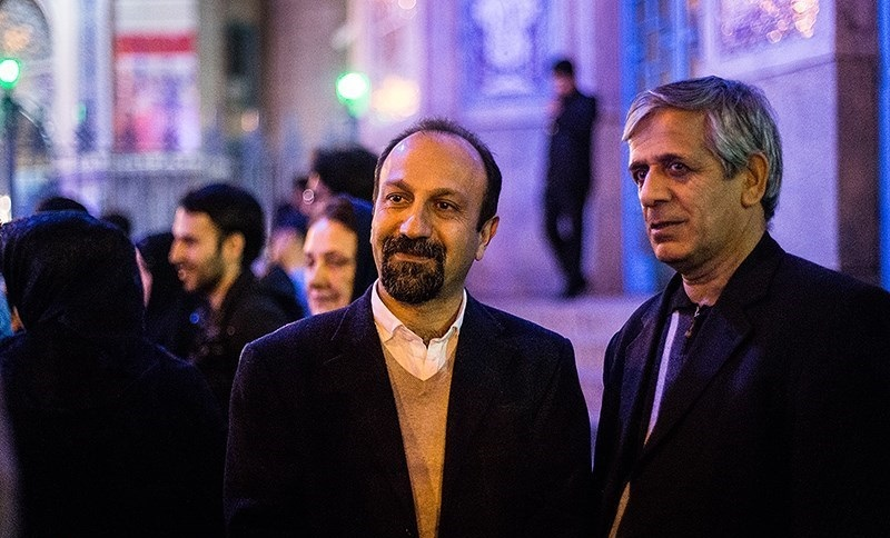 Asghar Farhadi waiting to vote in the 2016 Iranian election